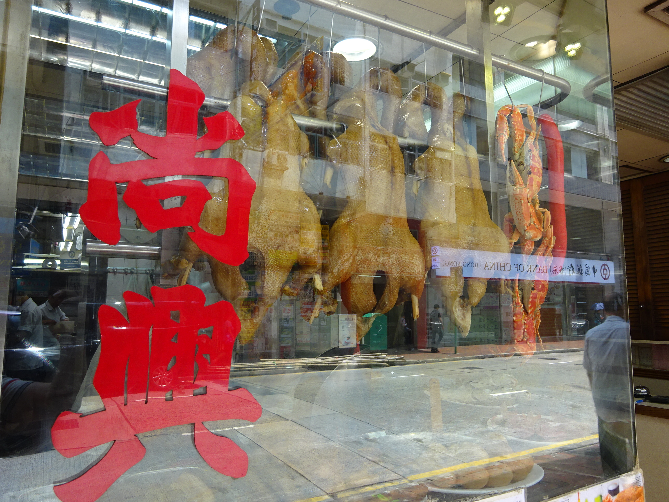 Shung Hing Chiu Chow Restaurant, Sun Shing Mansion, Queen's Road West, Sheung Wan, Hong Kong